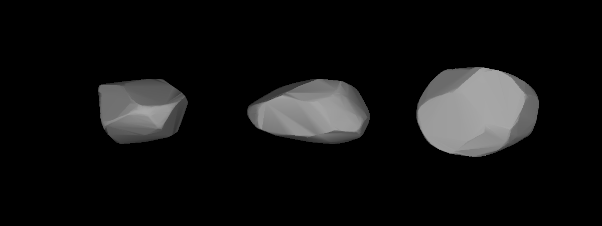 A three-dimensional model of 553 Kundry that was computed using light curve inversion techniques.